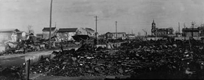 Center of Nagaoka City which became a burned land in Nagaoka Air Raid.